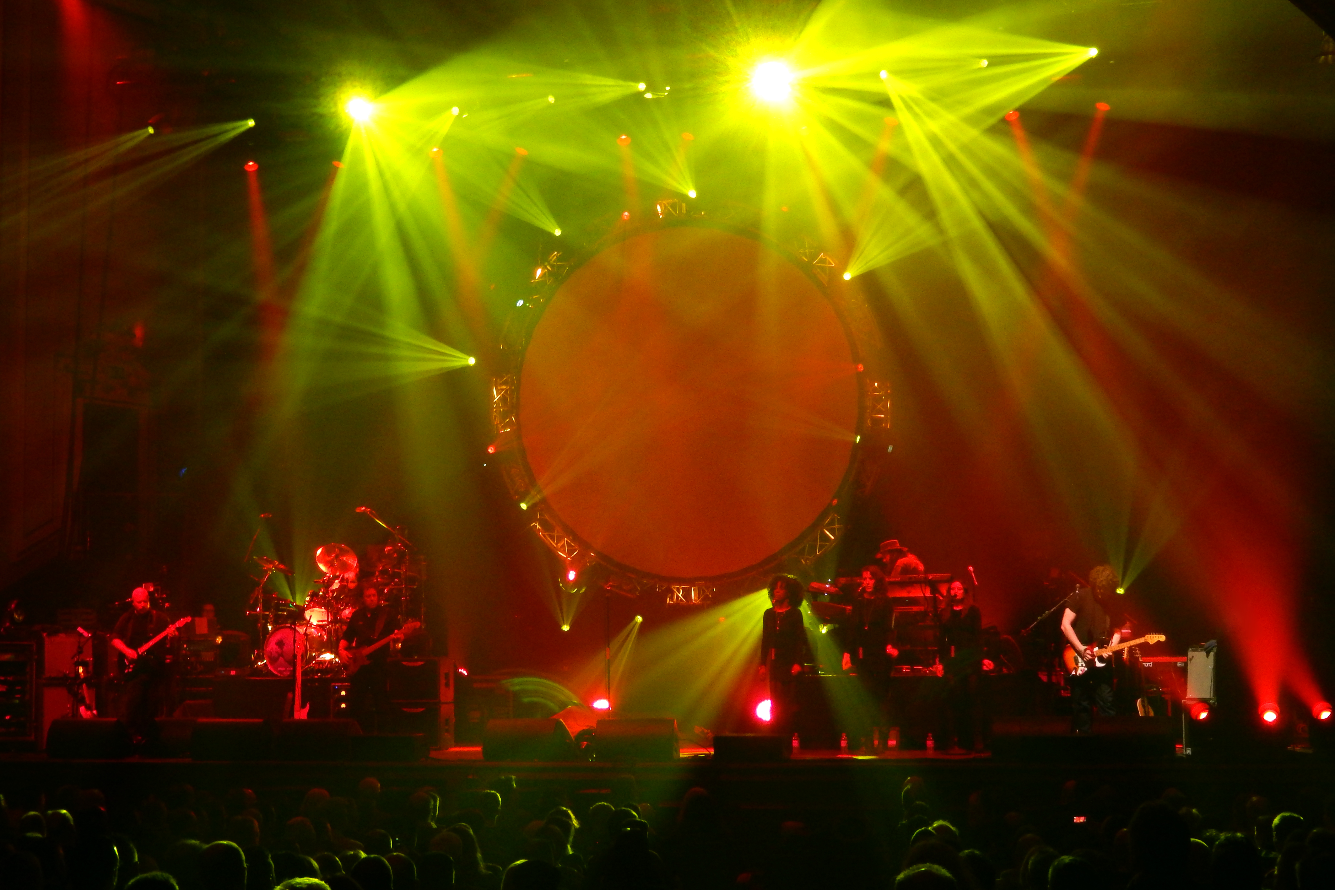 The Australian Pink Floyd Show at the Usher Hall in Edinburgh, 19th February 2015.